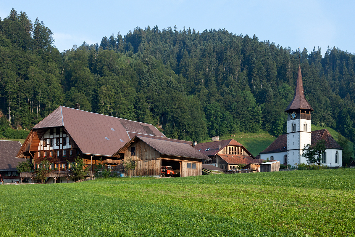 Trub